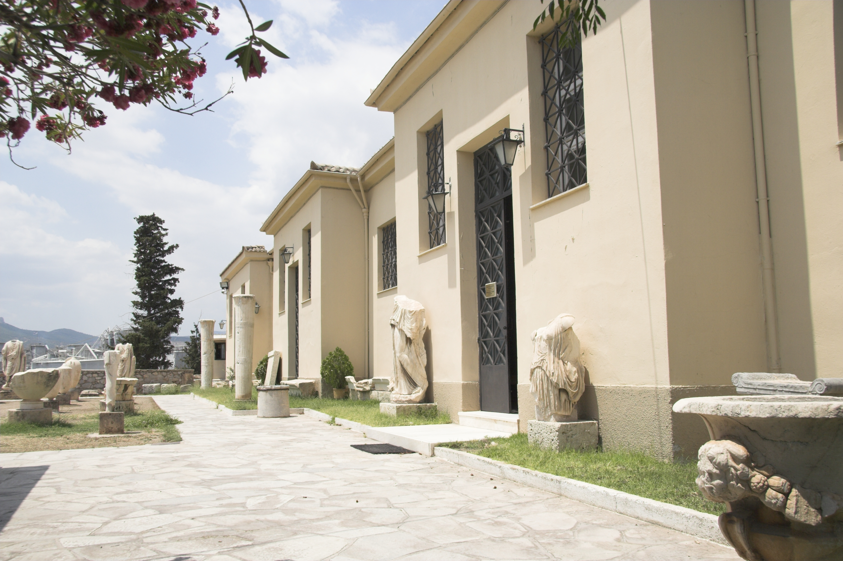 Building of the Archaeological Museum of Eleusis.